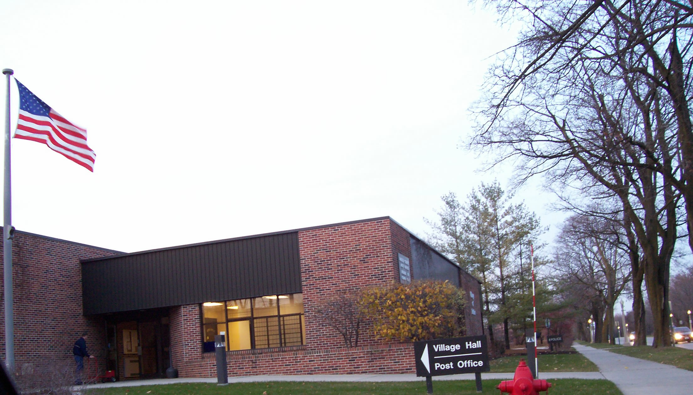 Looking north at the village hall for Kohler, Wisconsin, USA. Cropped from the original.